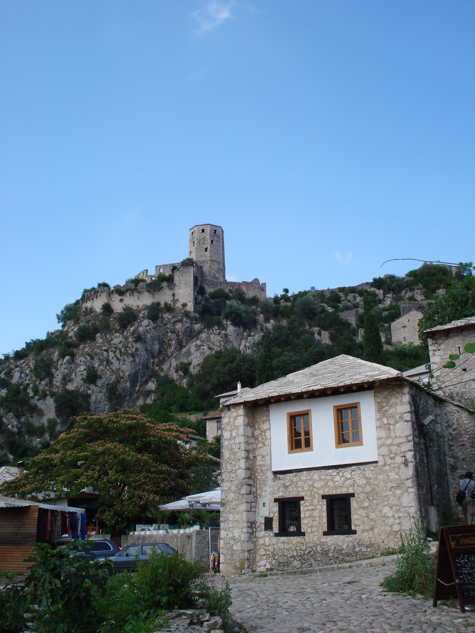 Old town of Počitelj in Herzegovina (Bosnia and Herzegovina), destroyed by Croatian forces in 1993, rebuilt after Bosnian War